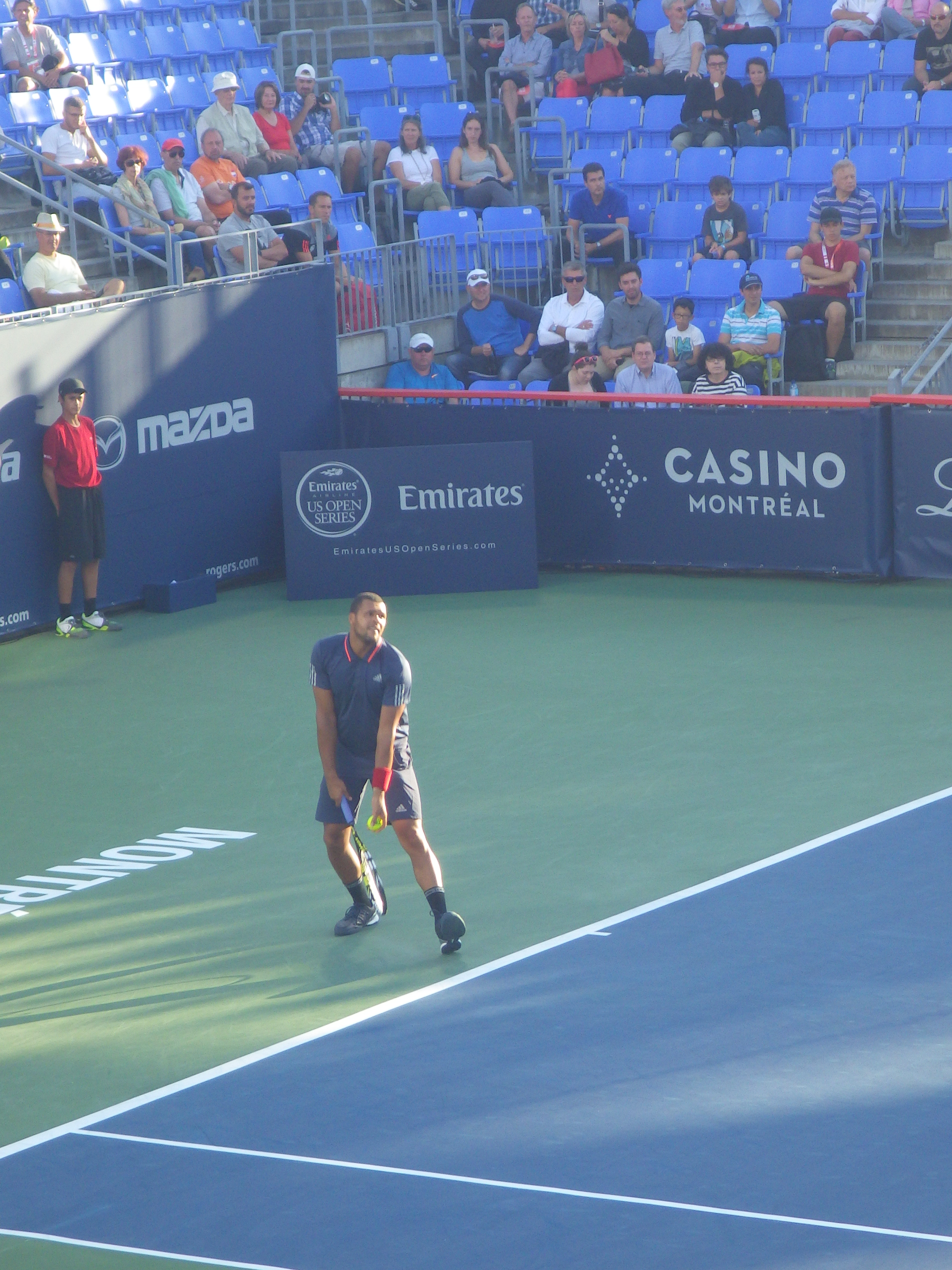 Tsonga serving, during his 2015 Montreal third round against Bernard Tomic